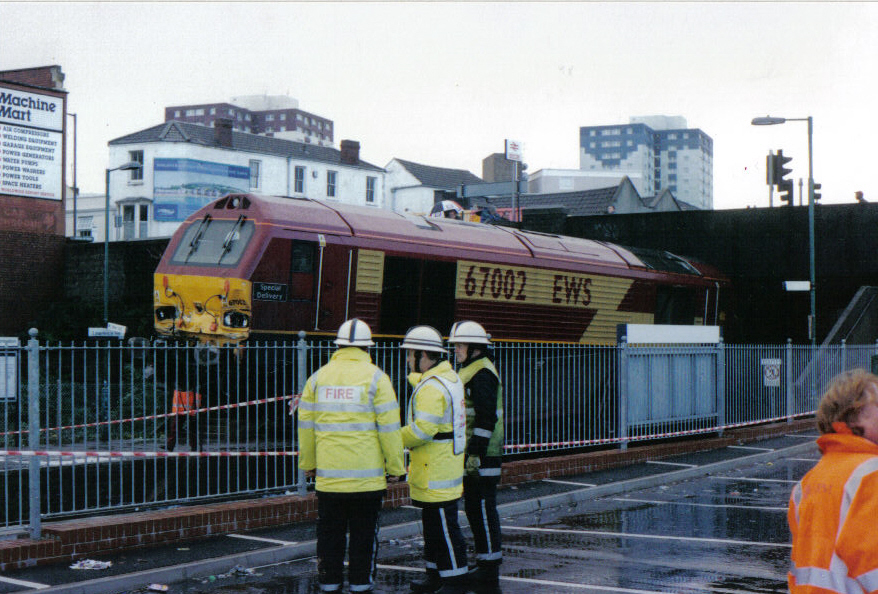 On November 1st 2000, an empty Royal Mail train slammed into the back of a loaded coal train at Lawrence Hill station in Bristol. The mail train's locomotive was knocked off the track and catapulted over the other train. The driver of the mail train suffered head injuries in the crash. The cause of the crash was not immediately known, but officials said that the mail train had passed through two red lights.